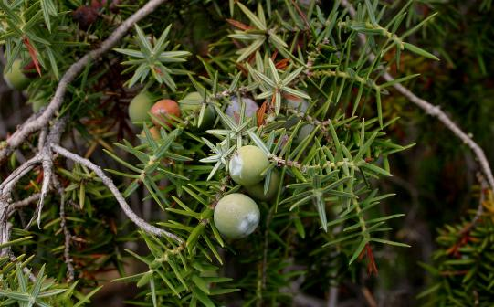 Juniperus oxycedrus in the maquis on Corsica.